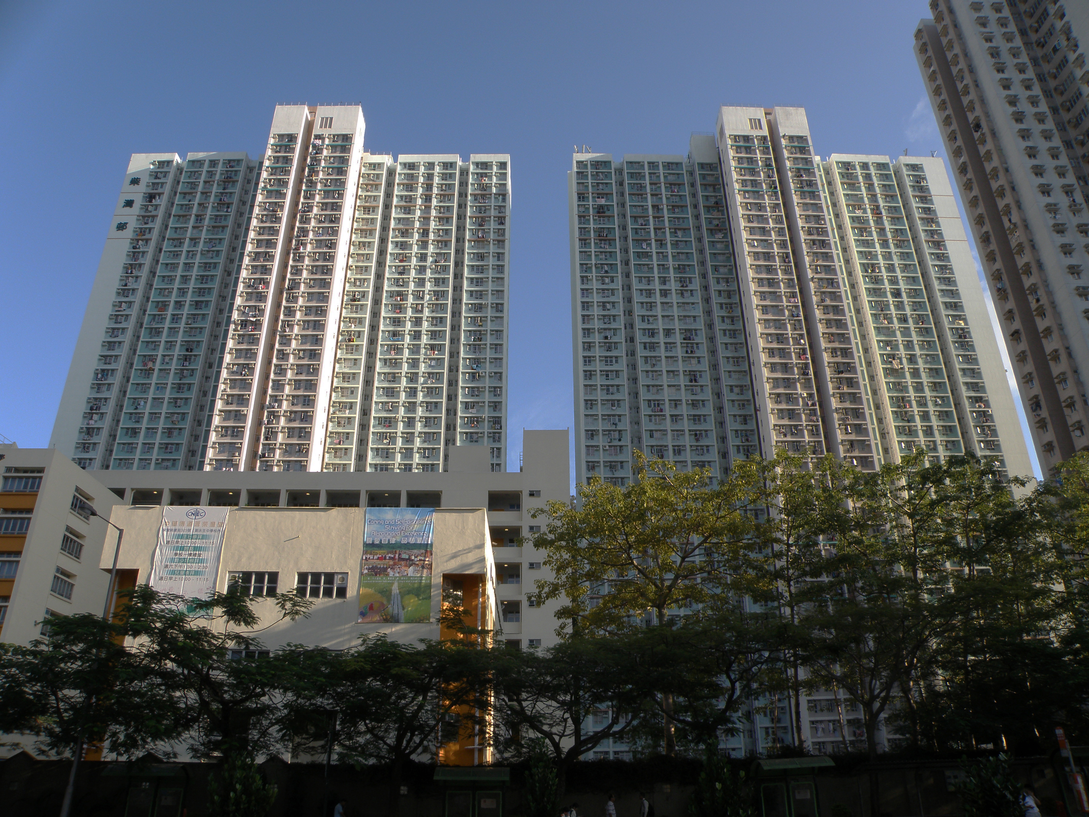 Chai Wan Estate in Chai Wan, Hong Kong.